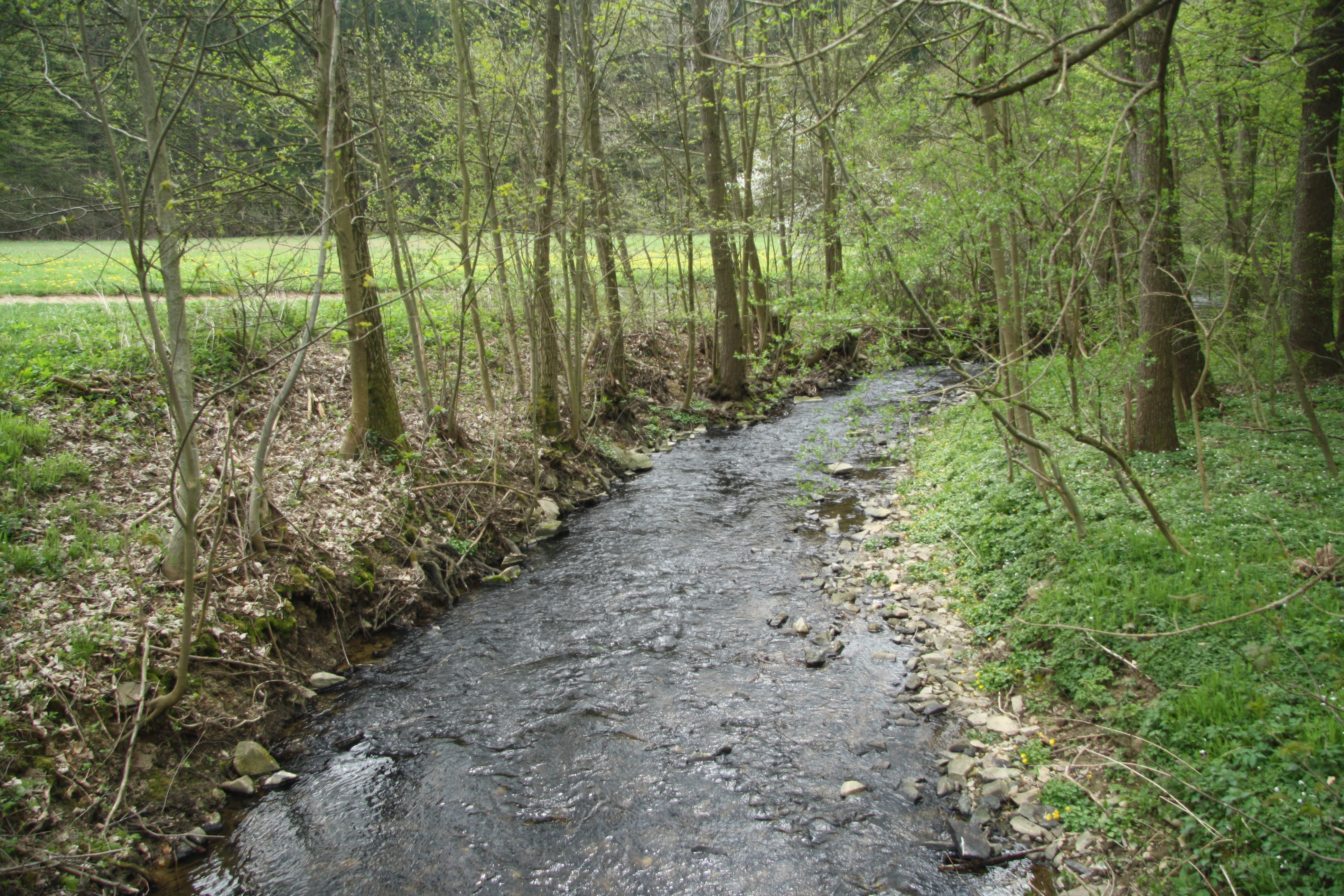 Chvojnice River near Lesní Jakubov, Třebíč District.